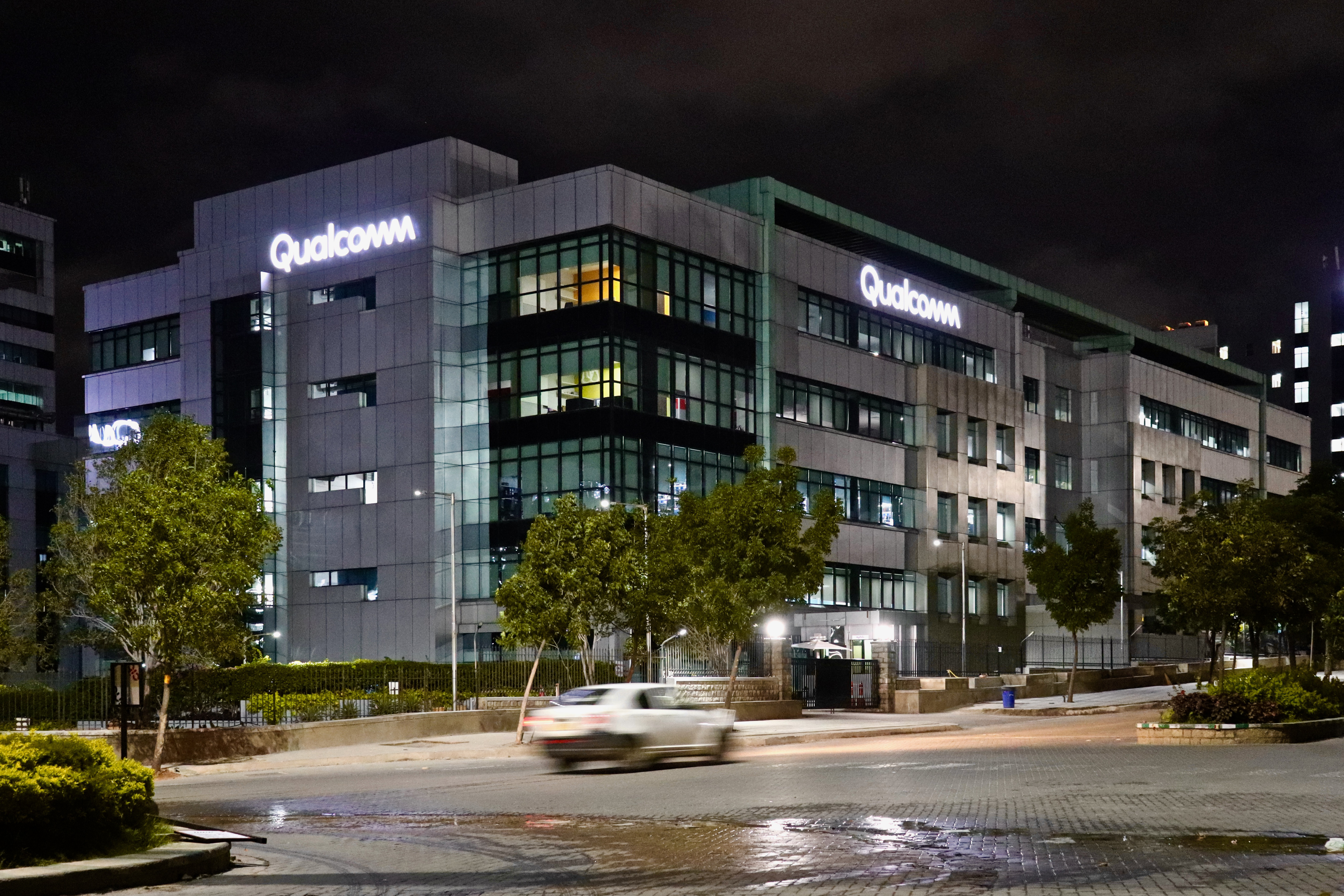 Computer Science Corporation building in Mindspace IT park, Hyderabad